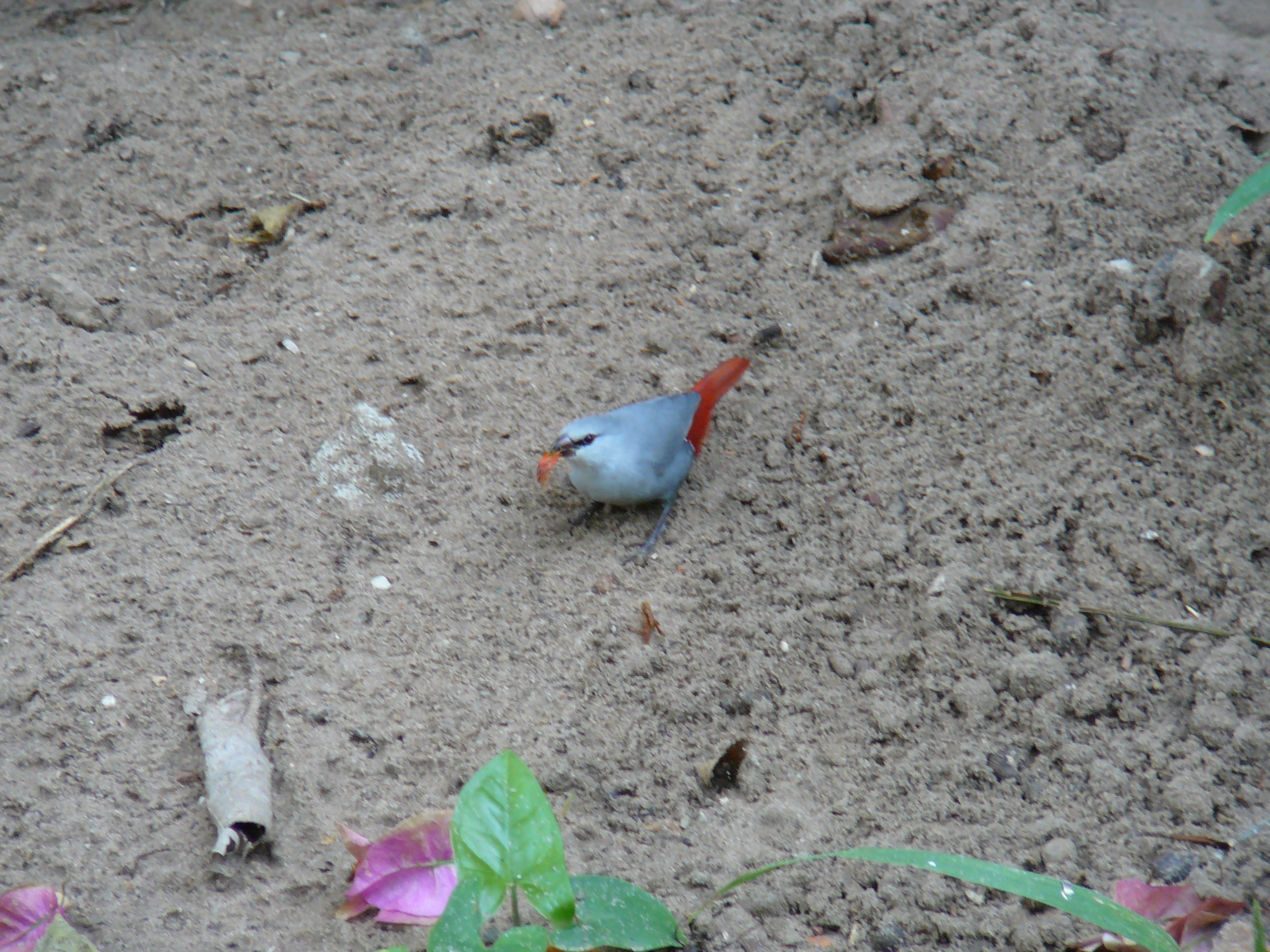 Lavender Waxbill